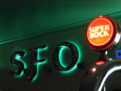 SFO